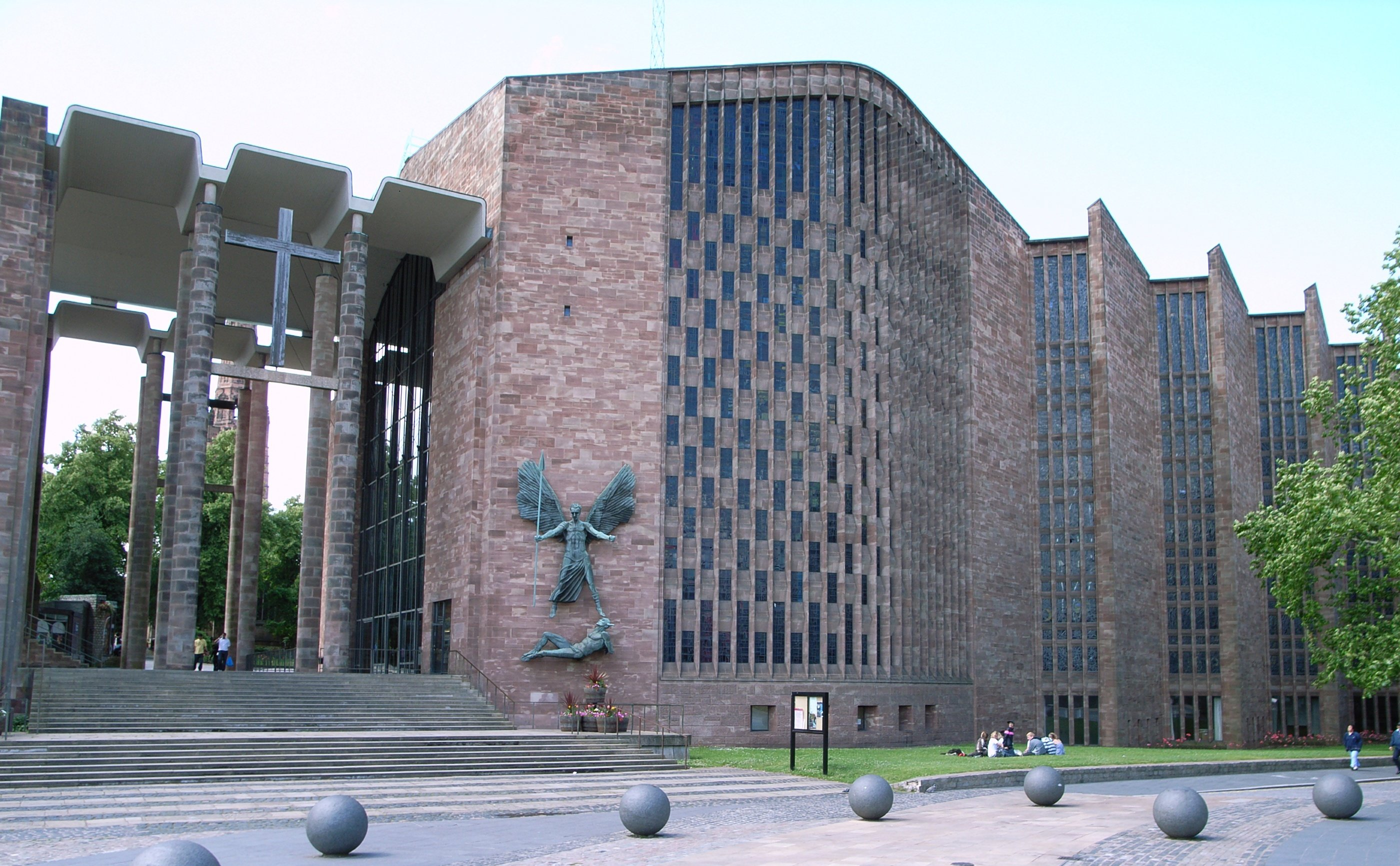 Coventry Cathedral exterior, Coventry, West Midlands, England.